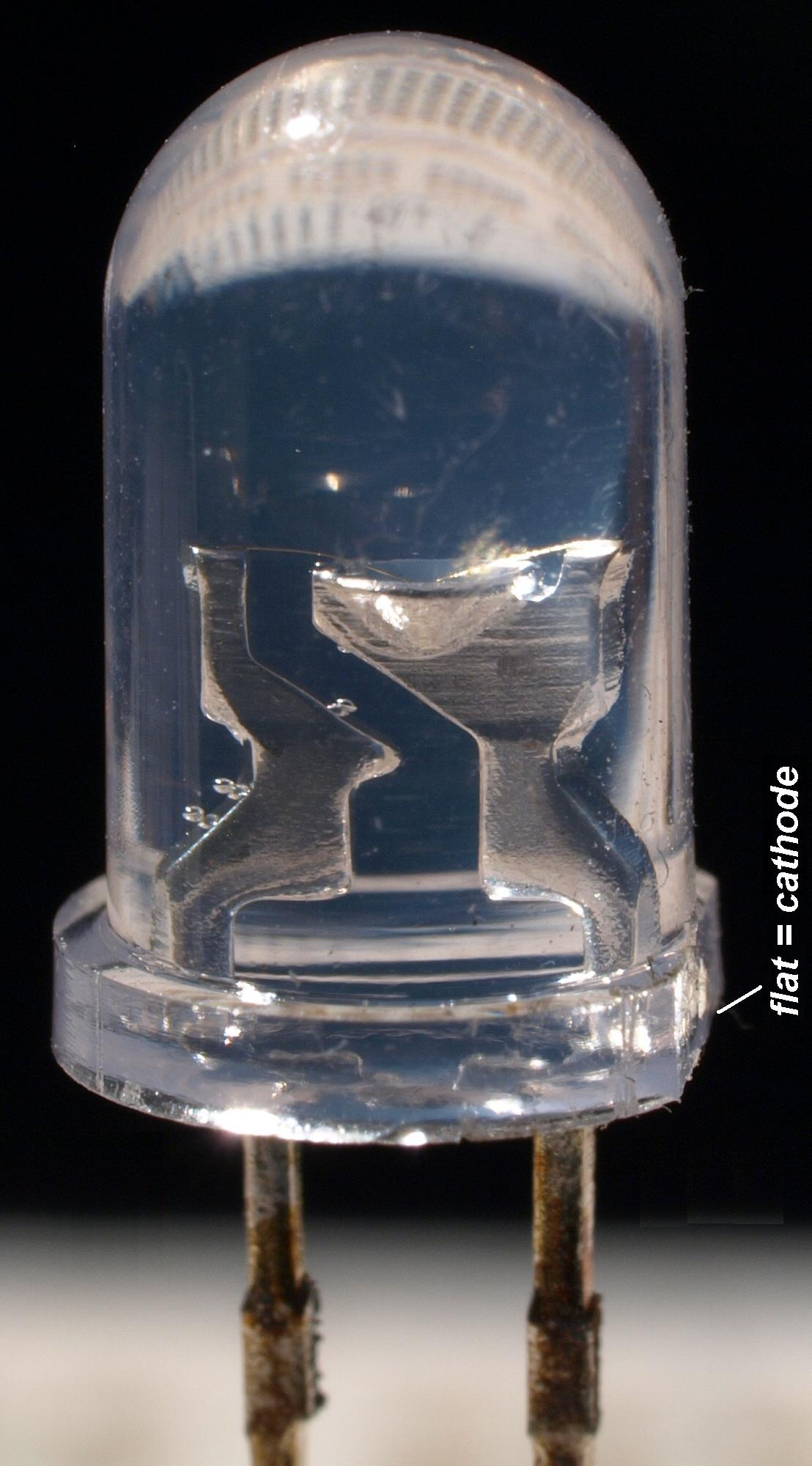 Macro image of an ultraviolet (UVA) LED. Note the reflection of a breadboard([1]) in the upper plastic casing.